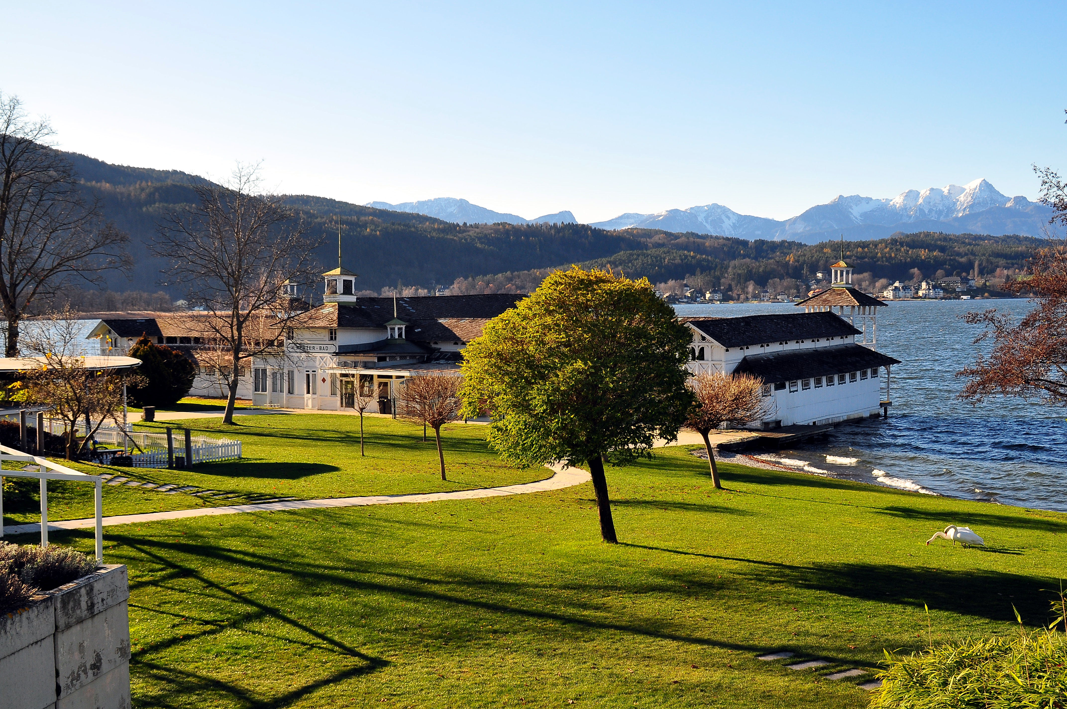 North east view at the bath establishment, 1895, architect Josef Viktor Fuchs, Art Nouveau architecture, view from the north, Wörthersee architecture, Werzer Strand #16,municipality Poertschach on the Lake Woerth, district Klagenfurt Land, Carinthia / Austria / EU